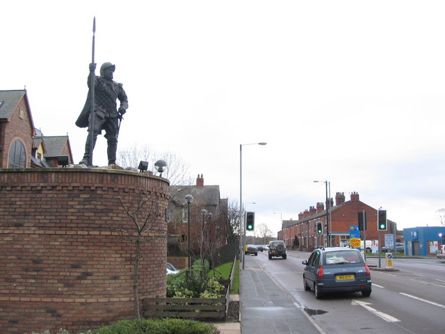 A Border Reiver. A view looking to the southeast along the A7 showing a statue of a Border Reiver, placed by the developer of the property to the left of the image.